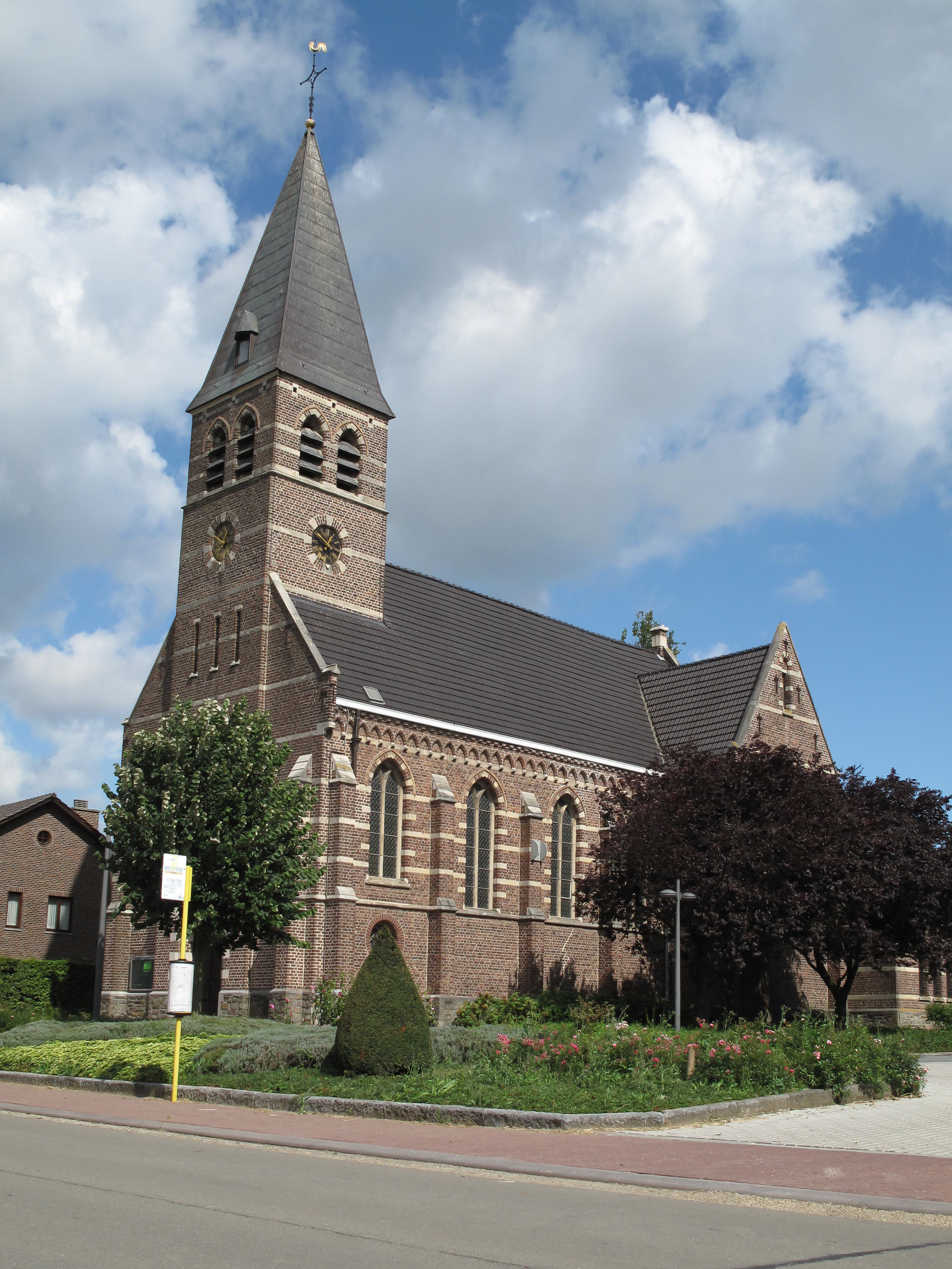 Schalkhoven, church: Sint Brixiuskerk